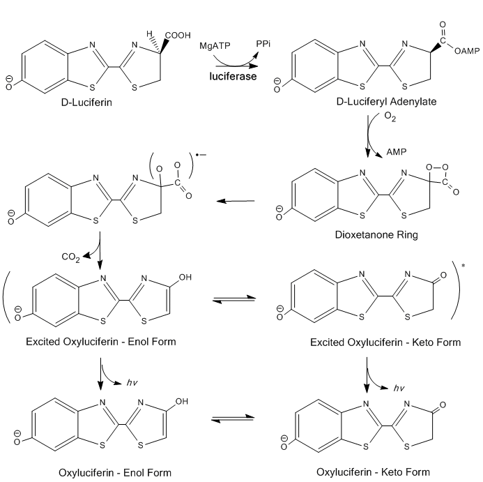 Mechanism of Luciferase